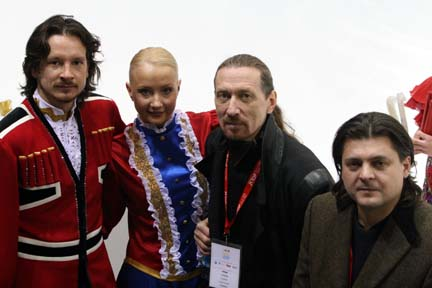 Oksana DOMNINA and Maxim SHABALIN at the boards with their coaches Alexei Gorshkov and Sergei Petuhov at the 2007-2008 Grand Prix Final